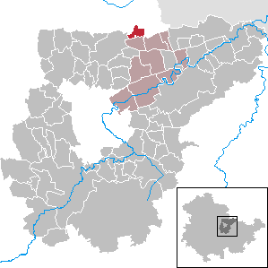 Niederreißen in Thuringia - District Weimarer Land